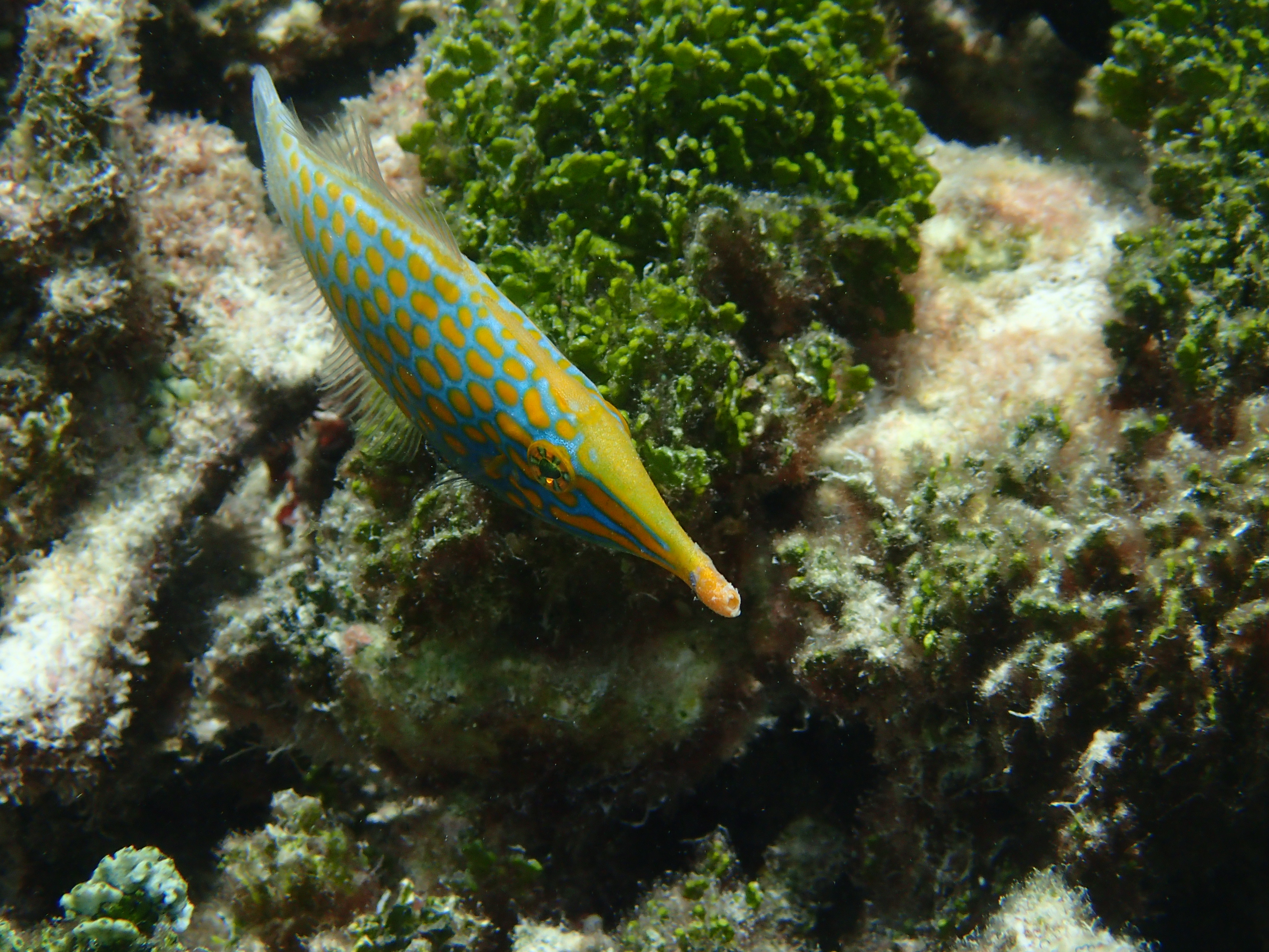 Harlequin Filefish, Vilamendhoo Maldives